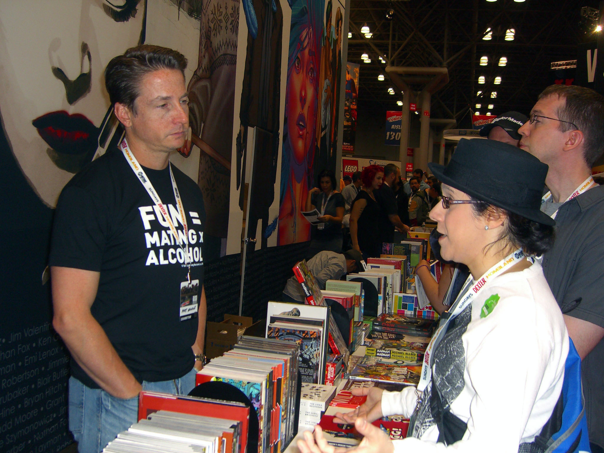 Top Cow Productions President/Chief Operating Officer Matt Hawkins on Day 3 of the 2012 New York Comic Con, Saturday October 13, 2012 at the Jacob K. Javits Convention Center in Manhattan. This photo was created by Luigi Novi. It is not in the public domain, and use of this file outside of the licensing terms is a copyright violation.